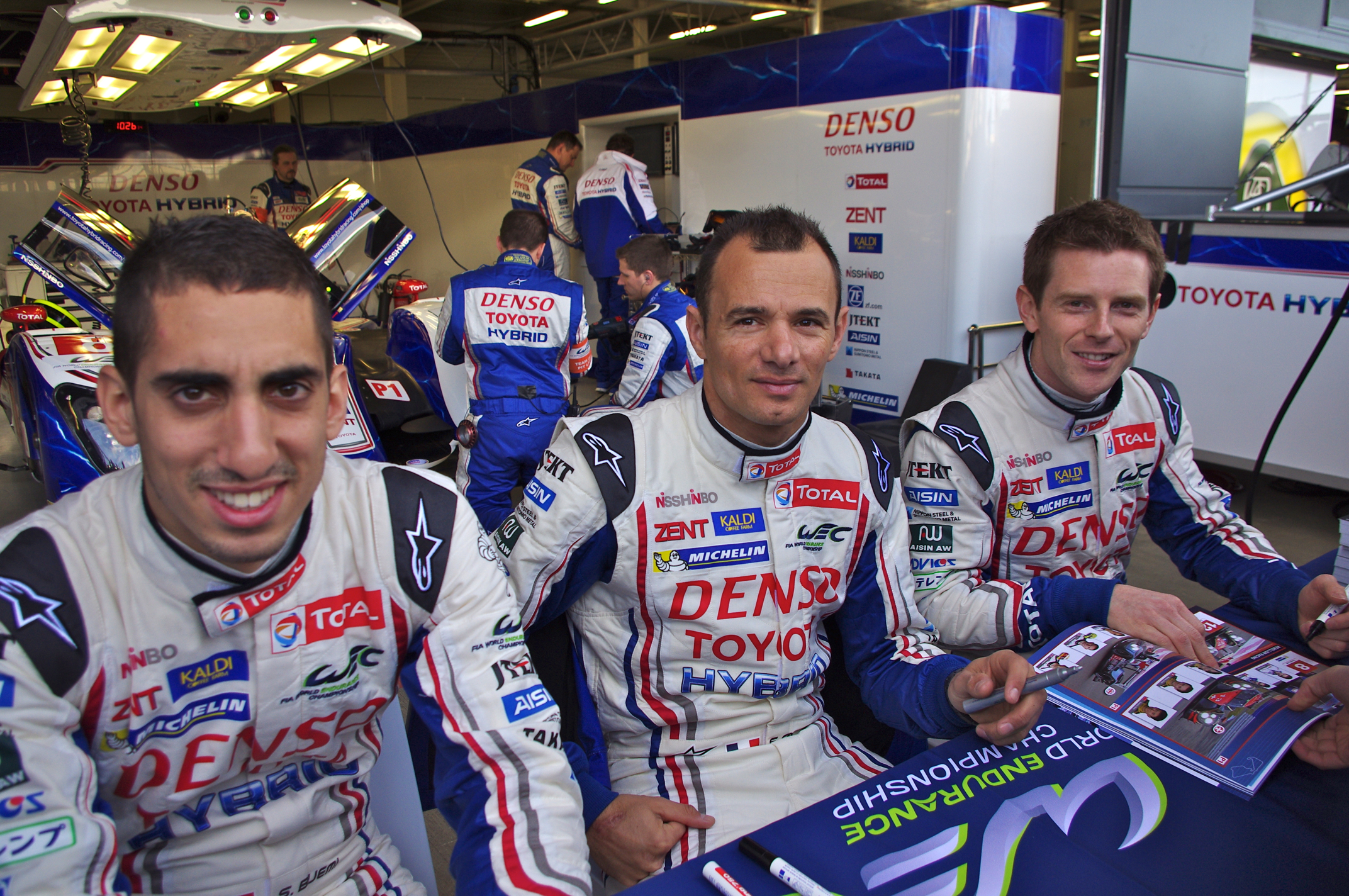 Silverstone 6 Hours 2013 FIA World Endurance Championship (WEC)